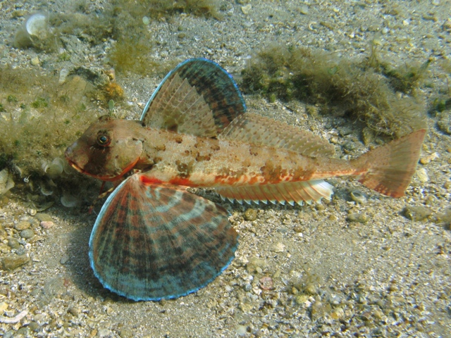 Chelidonichthys lastoviza photographed in Croatian waters. Photo by Roberto Pillon.